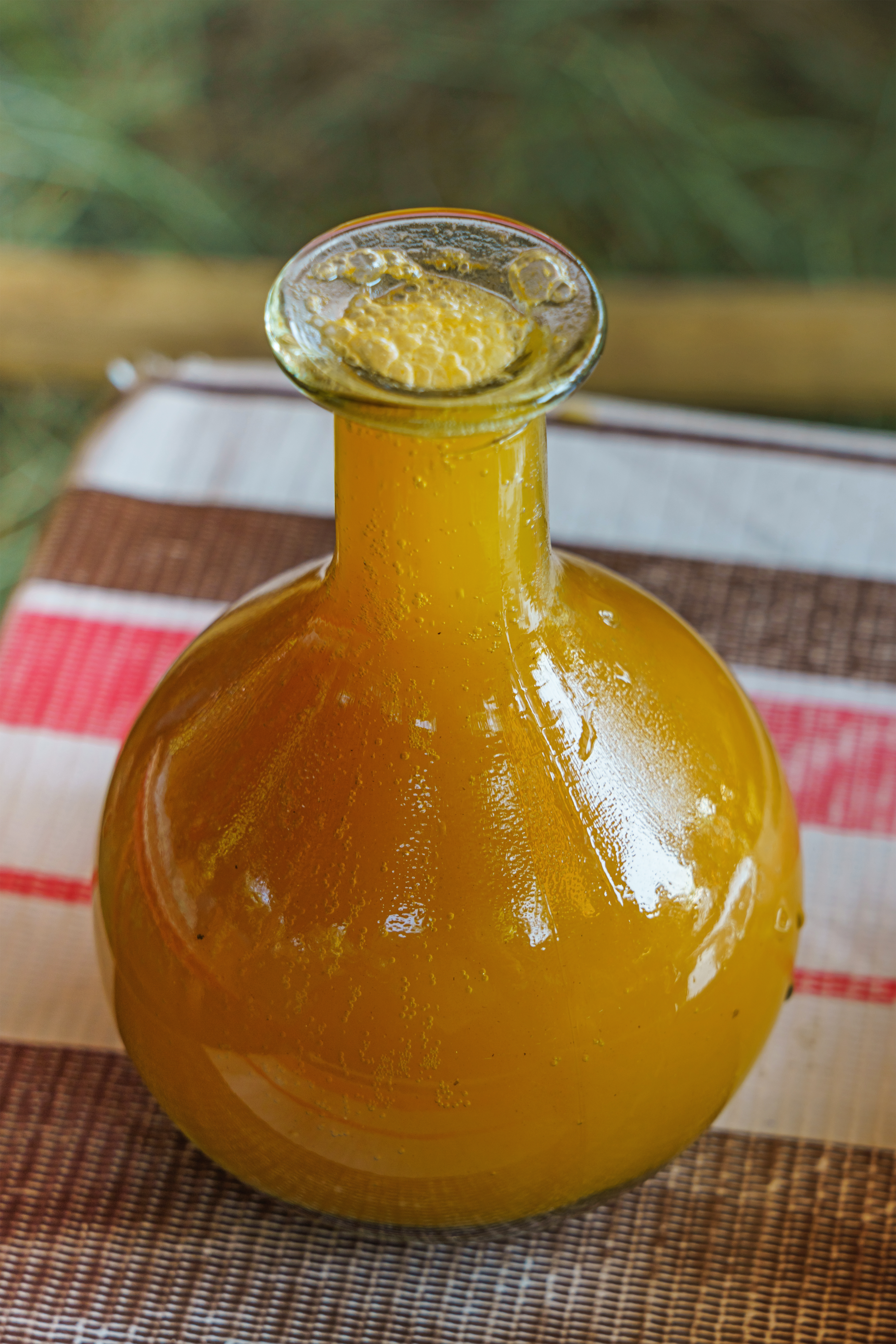 A glass bottle of tej in a restaurant at Debre Mariam Monastery – Lake Tana near Bahir Dar, Ethiopia